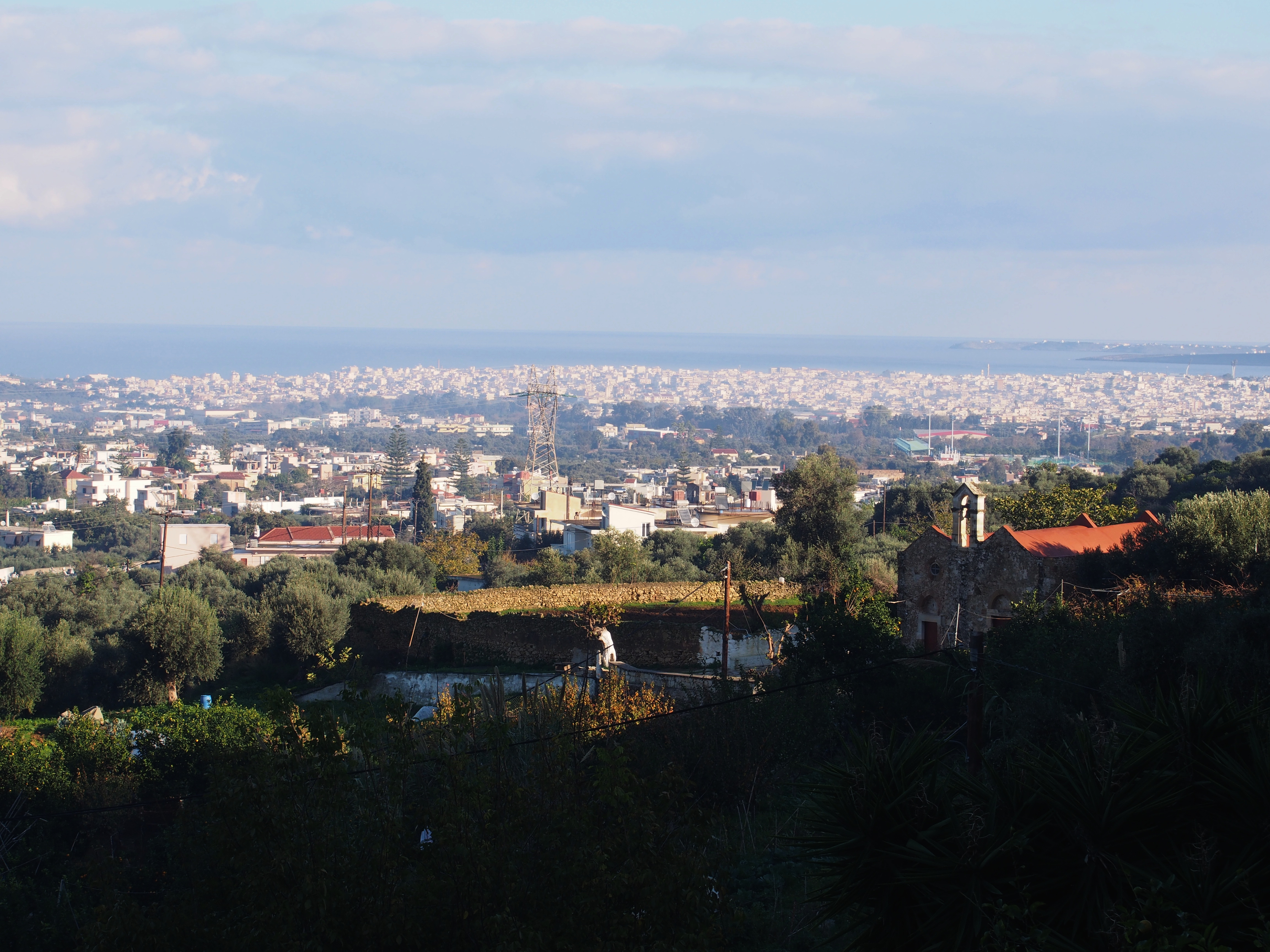 View of Perivolia (to the left) and Chania in the distant from Boutsounaria.